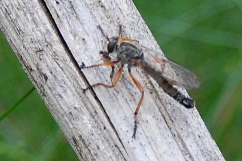 Neomochtherus pallipes, male